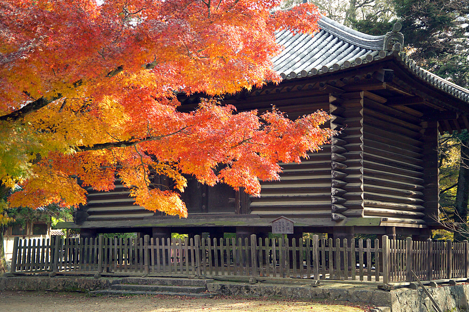 Building at Todaiji Nara Japan This is not the Shosoin. I took this photo and contribute my rights in the file to the public domain; people and organizations retain rights over images in it.